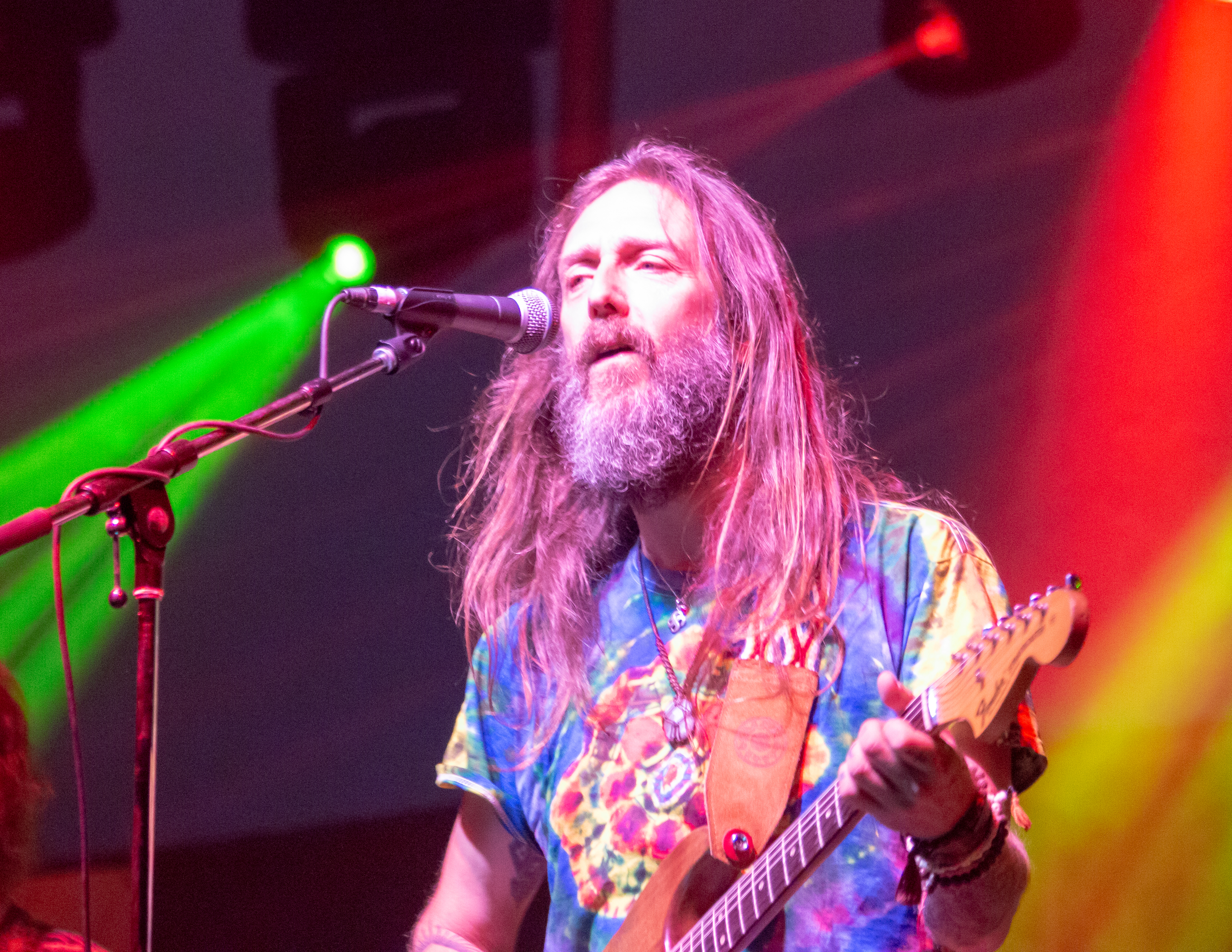 Chris Robinson performing with the Chris Robinson Brotherhood at the Kitchener Blues Festival in 2018